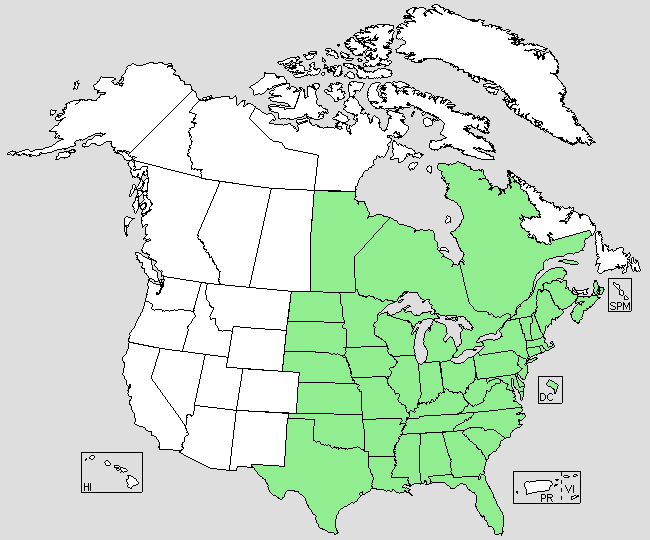 Distribution map of Sanguinaria canadensis (Bloodroot) — in the United States. Copied from The USDA is a public agency of the United States, and created this graphic using GPL software.